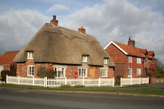 West Rasen Post Office Quaint thatched Post Office at West Rasen